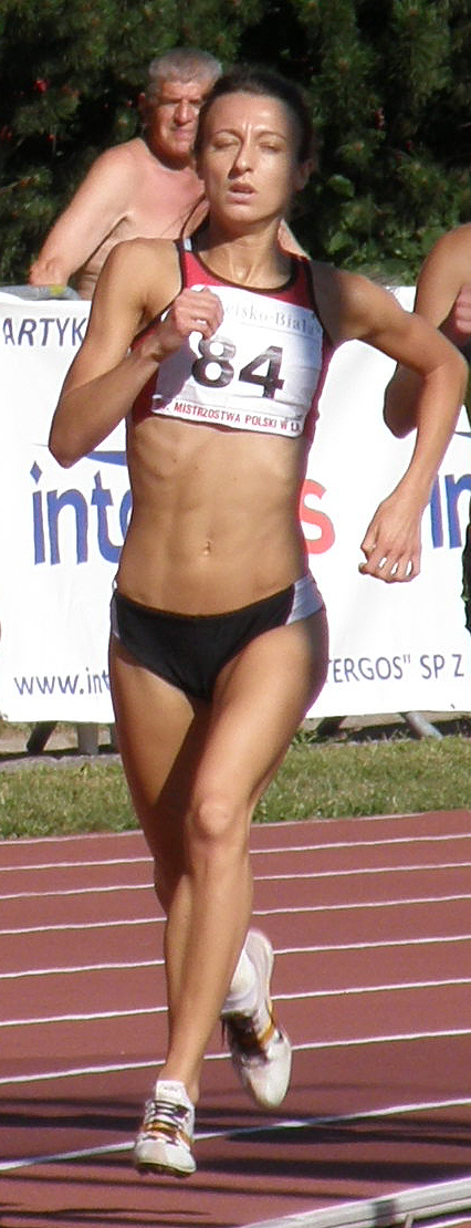 Katarzyna Broniatowska competing at the 2010 Polish Championships in Athletics (Bielsko-Biała)